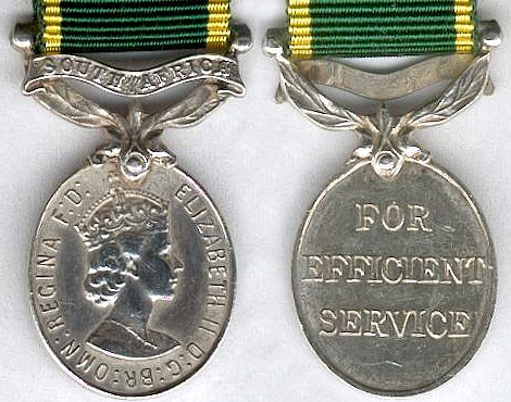 Miniature of the type 1 Queen Elizabeth II version of the Efficiency Medal (South Africa). The medal was never awarded since it was superseded by the John Chard Medal on 6 April 1952.